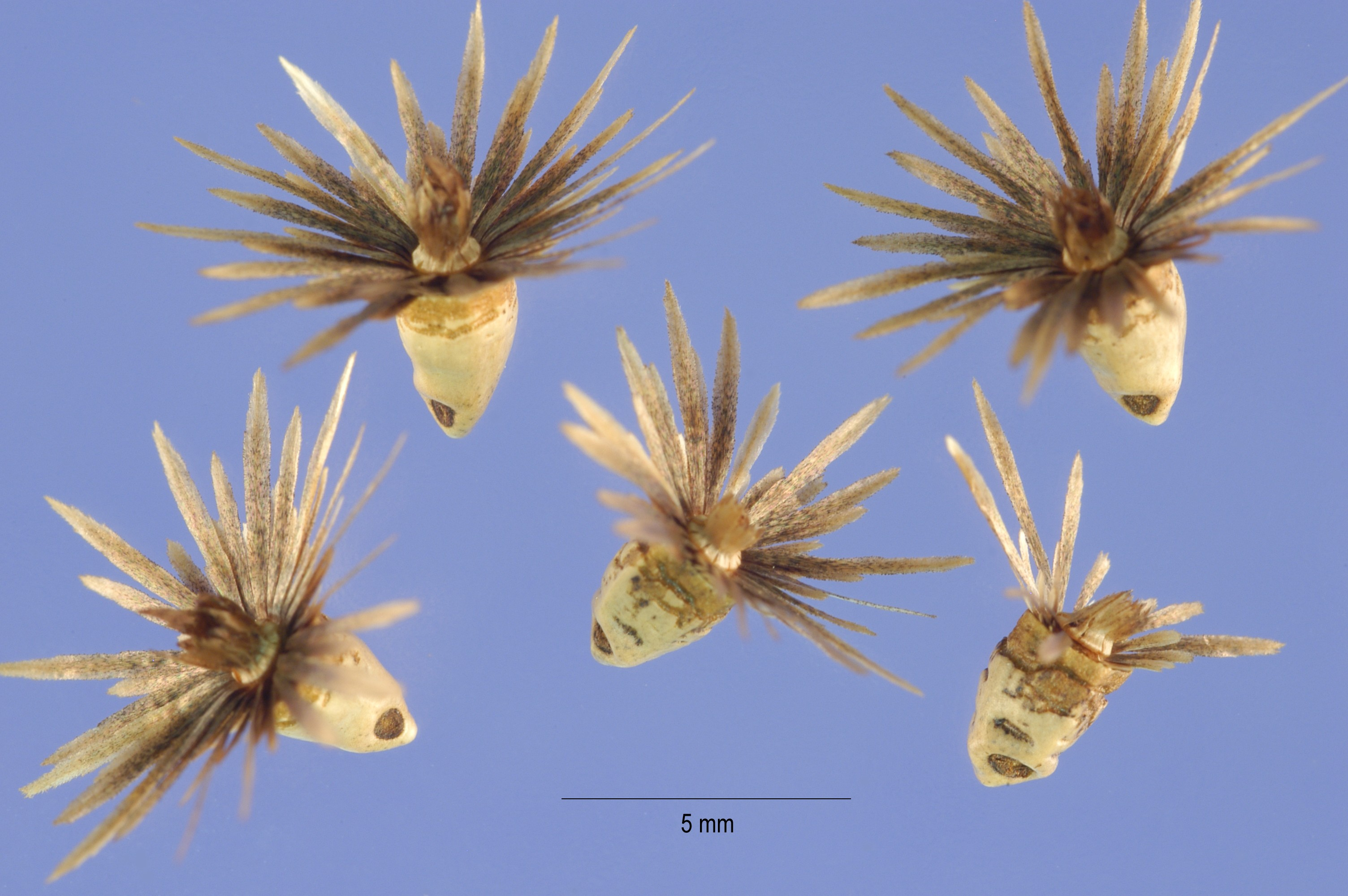 Carthamus leucocaulos achenes. From Steve Hurst. Provided by ARS Systematic Botany and Mycology Laboratory. Greece, Crete.